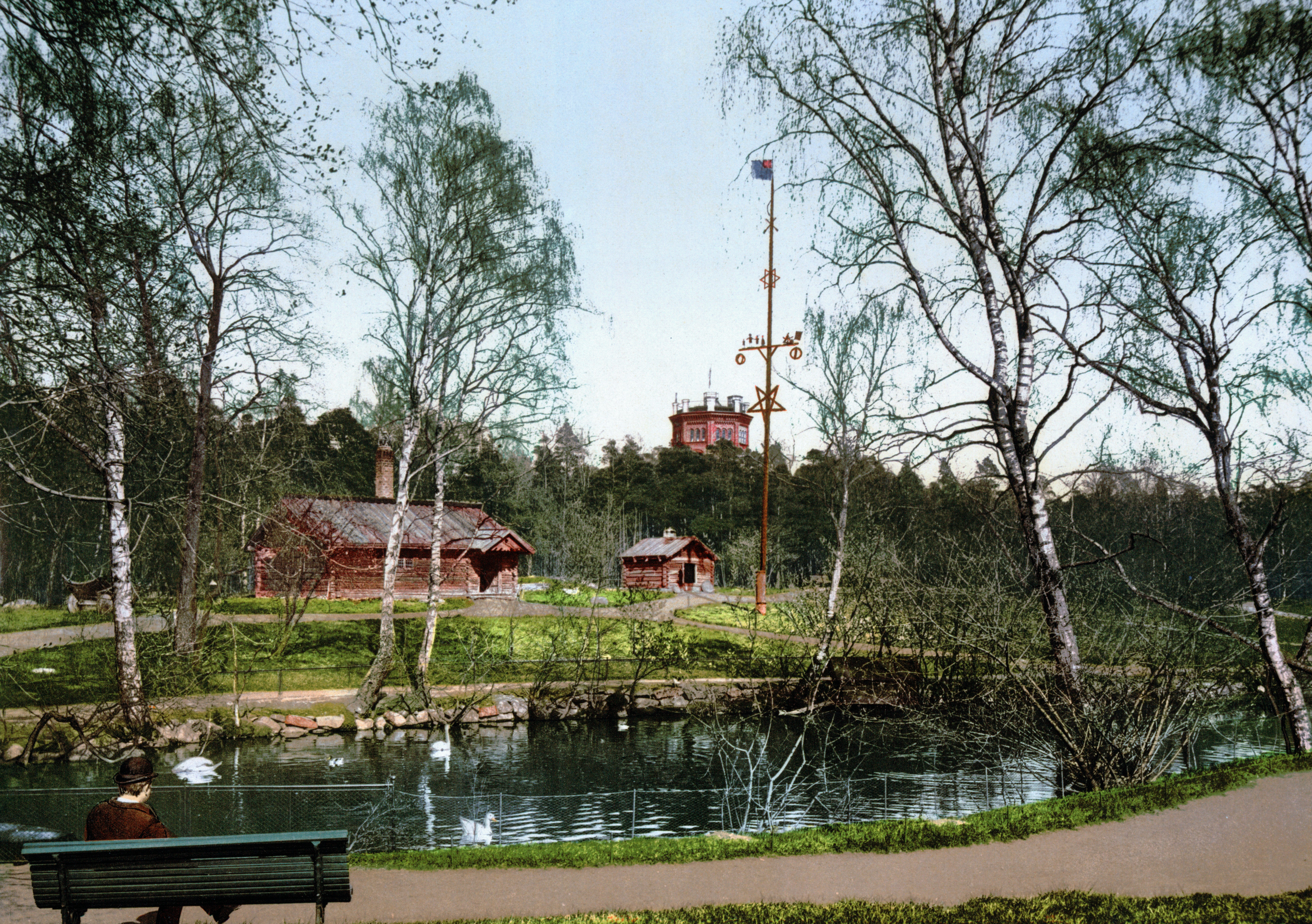 Skansen, Stockholm, Sweden Title from the Detroit Publishing Co., Catalogue J--foreign section, Detroit, Mich. : Detroit Publishing Company, 1905. Print no. "7129". Forms part of: Landscape and marine views of Norway in the Photochrom print collection. Source: Frank and Frances Carpenter Collection, Library of Congress